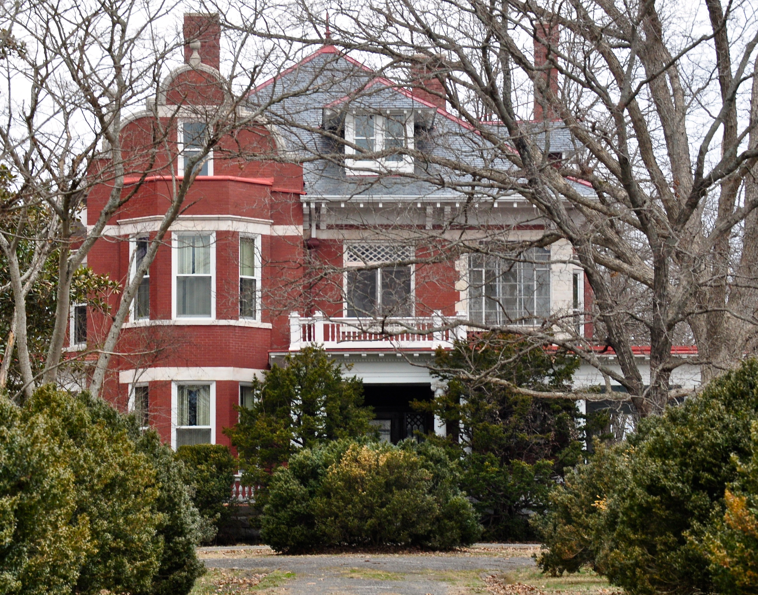 Located at Shelbyville, Bedford County, Tennessee. Added to NRHP on 5 June 1975.